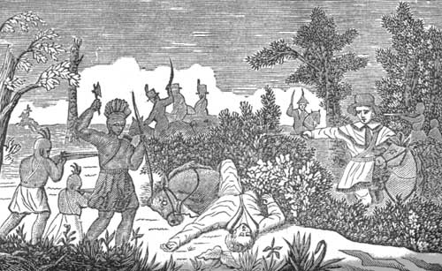 A depiction of the Battle of Stillman's Run during the 1832 Black Hawk War in present day Illinois.